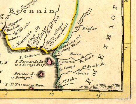 Detail showing the Bight of Biafra from a map by Herman Moll, 1729, showing "NEGROLAND and GUINEA. With the European Settlements, Explaining what belongs to England, Holland, Denmark etc.